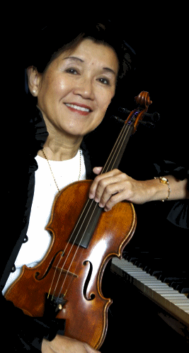 Ayke Agus. Same photo used on her website, obtained from her directly, without caption on right side, which I removed.